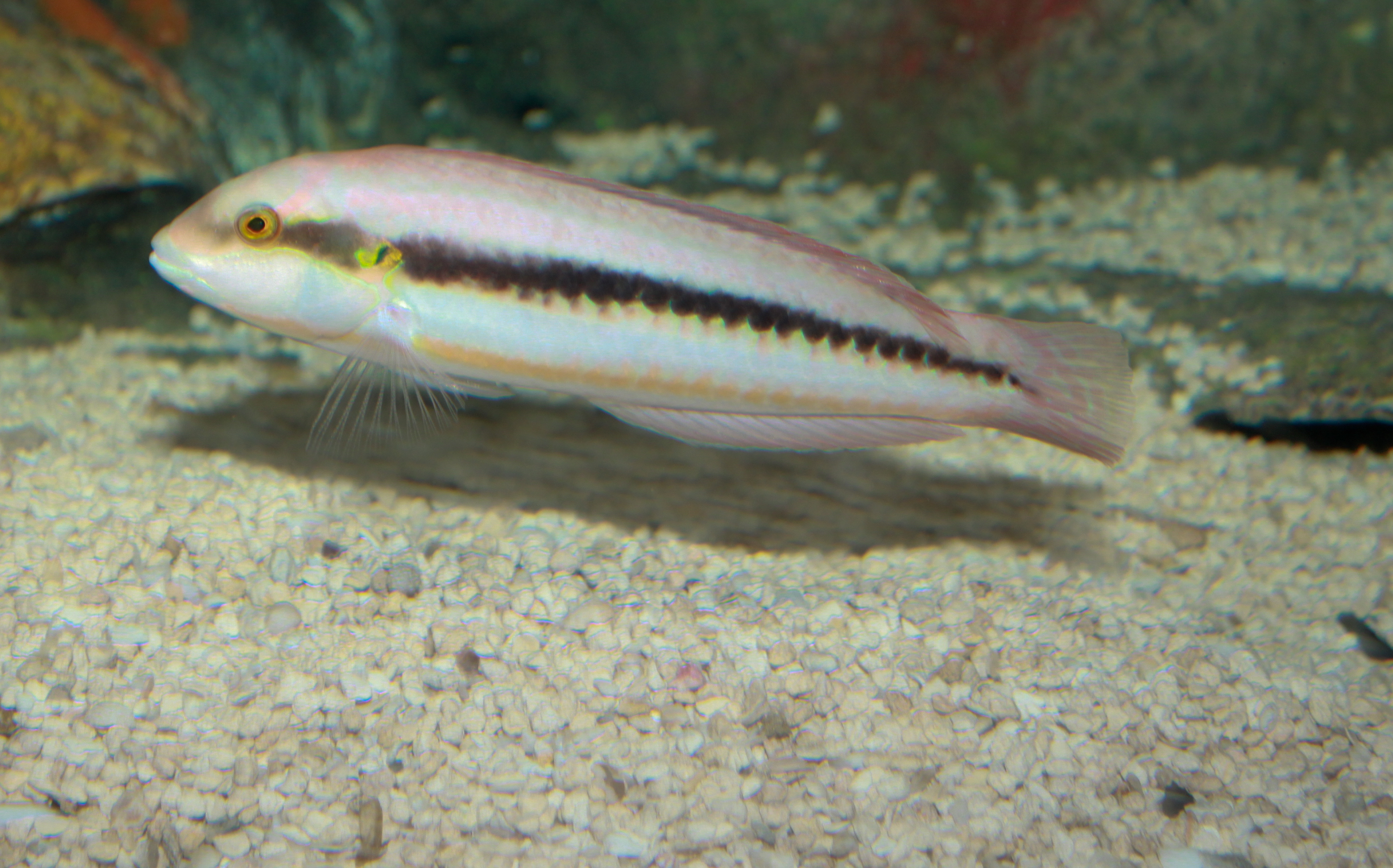 Slippery Dick Wrasse - Halichoeres bivittatus